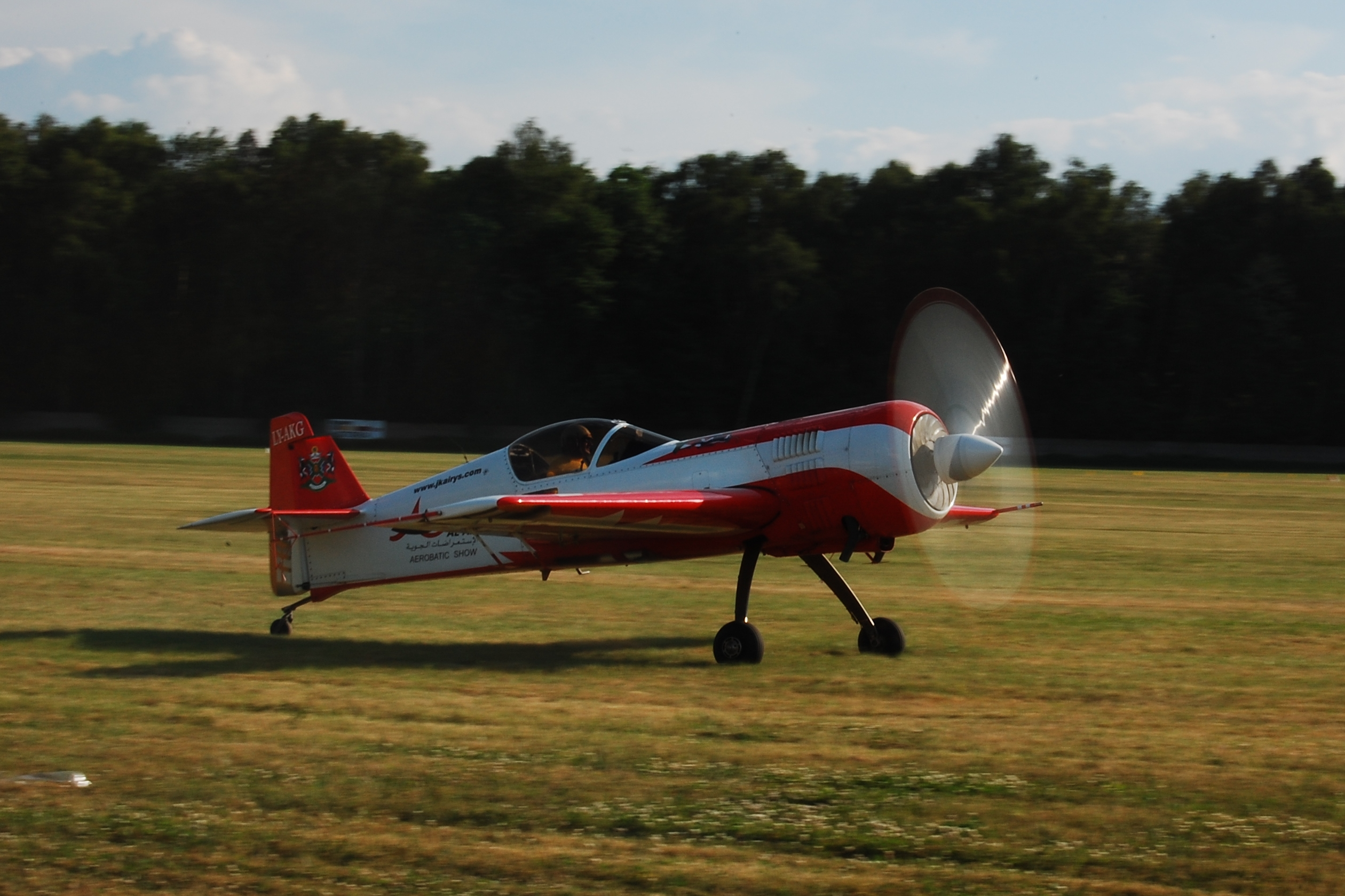 Sukhoi Su-26 - russian aerobatic aircraft